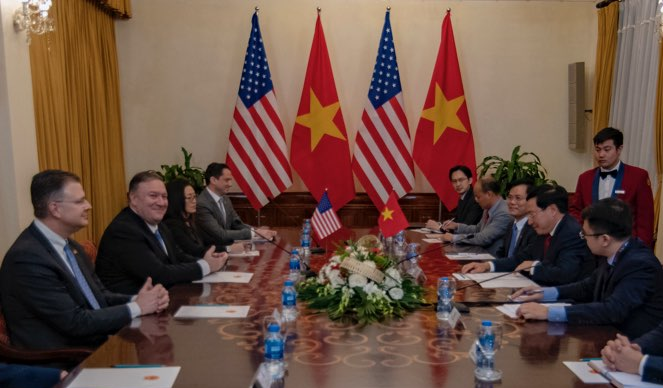 U.S. Secretary of State Michael R. Pompeo participates in a bilateral meeting with Vietnamese Deputy Prime Minister and Foreign Minister Pham Binh Minh in Hanoi, Vietnam on February 26, 2019. [State Department photo by Ron Przysucha/ Public Domain]